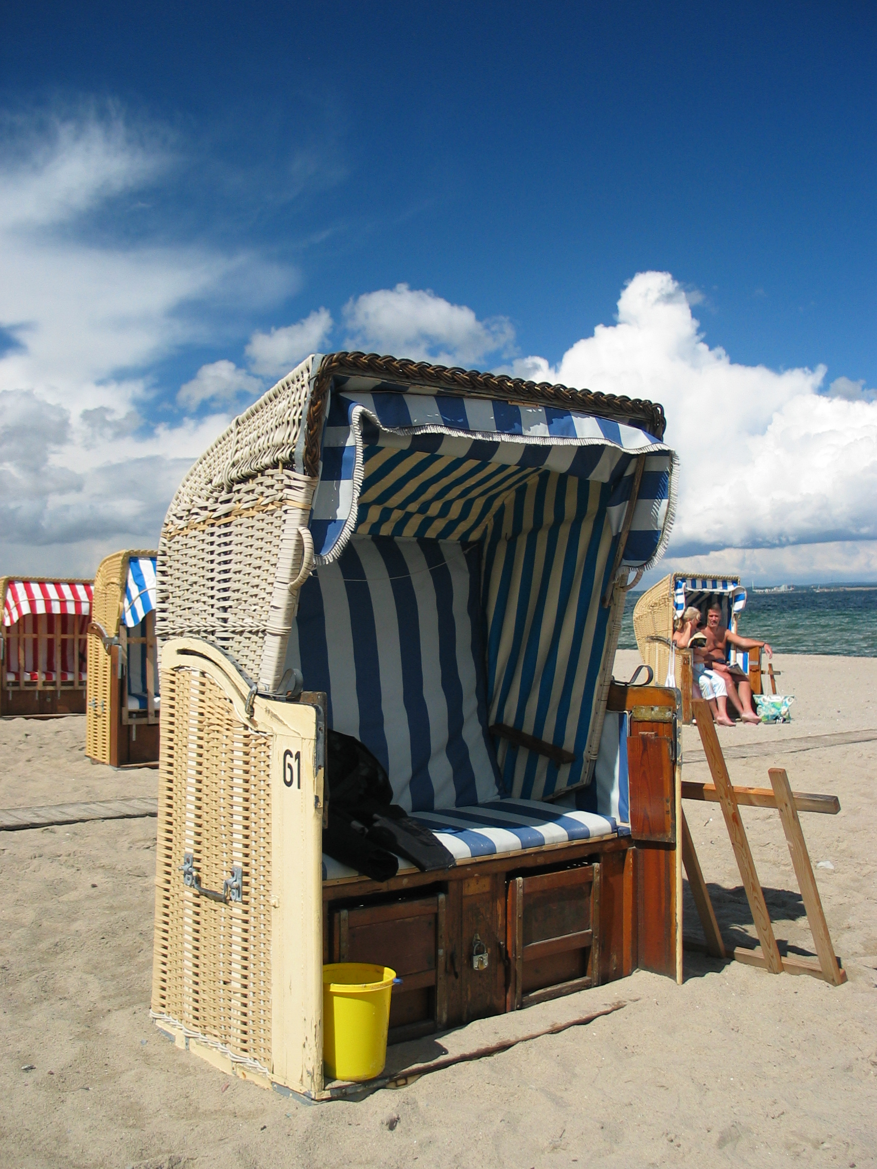 Beach chair in Niendorf on the Baltic Sea coast, Germany.